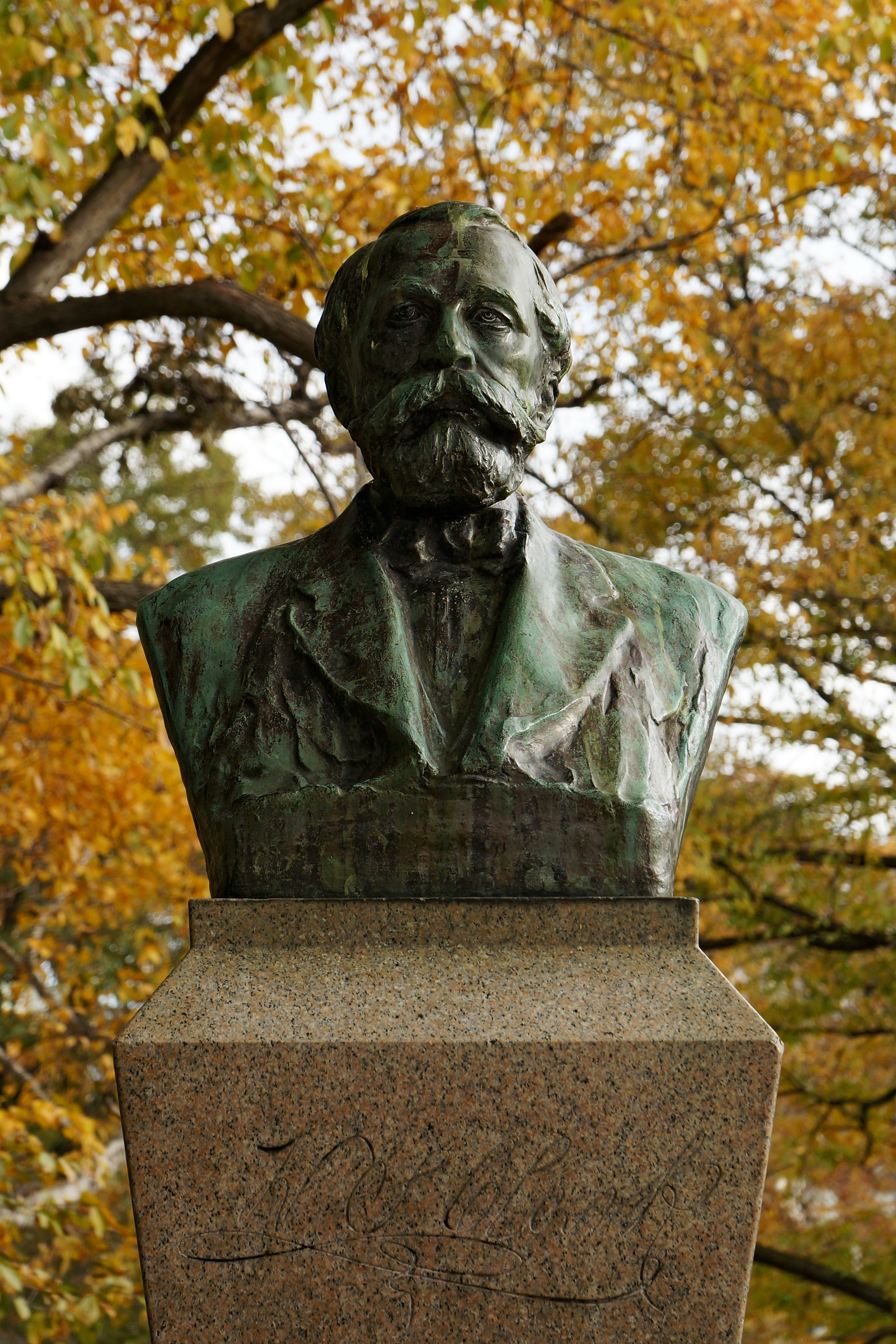 At Hokkaido University in Sapporo, Hokkaido prefecture, Japan.